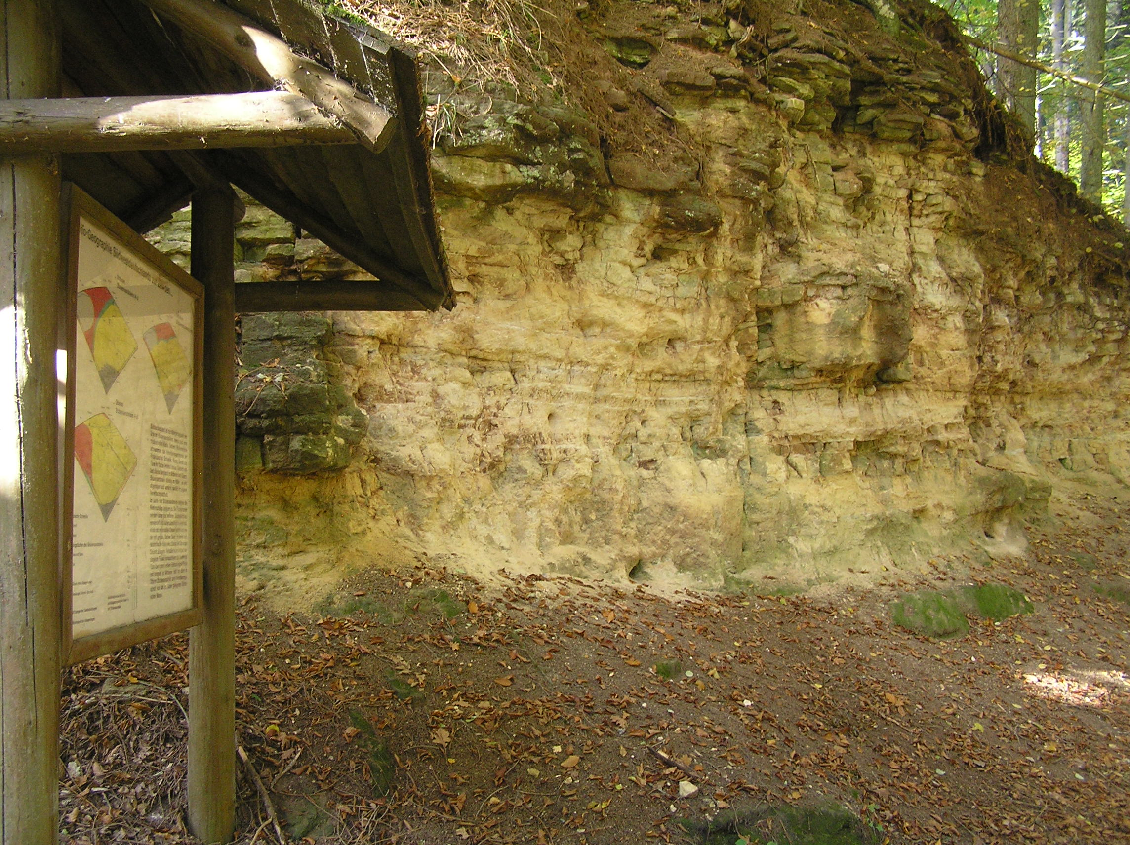 Aufschluss von der Löwenstein-Formation